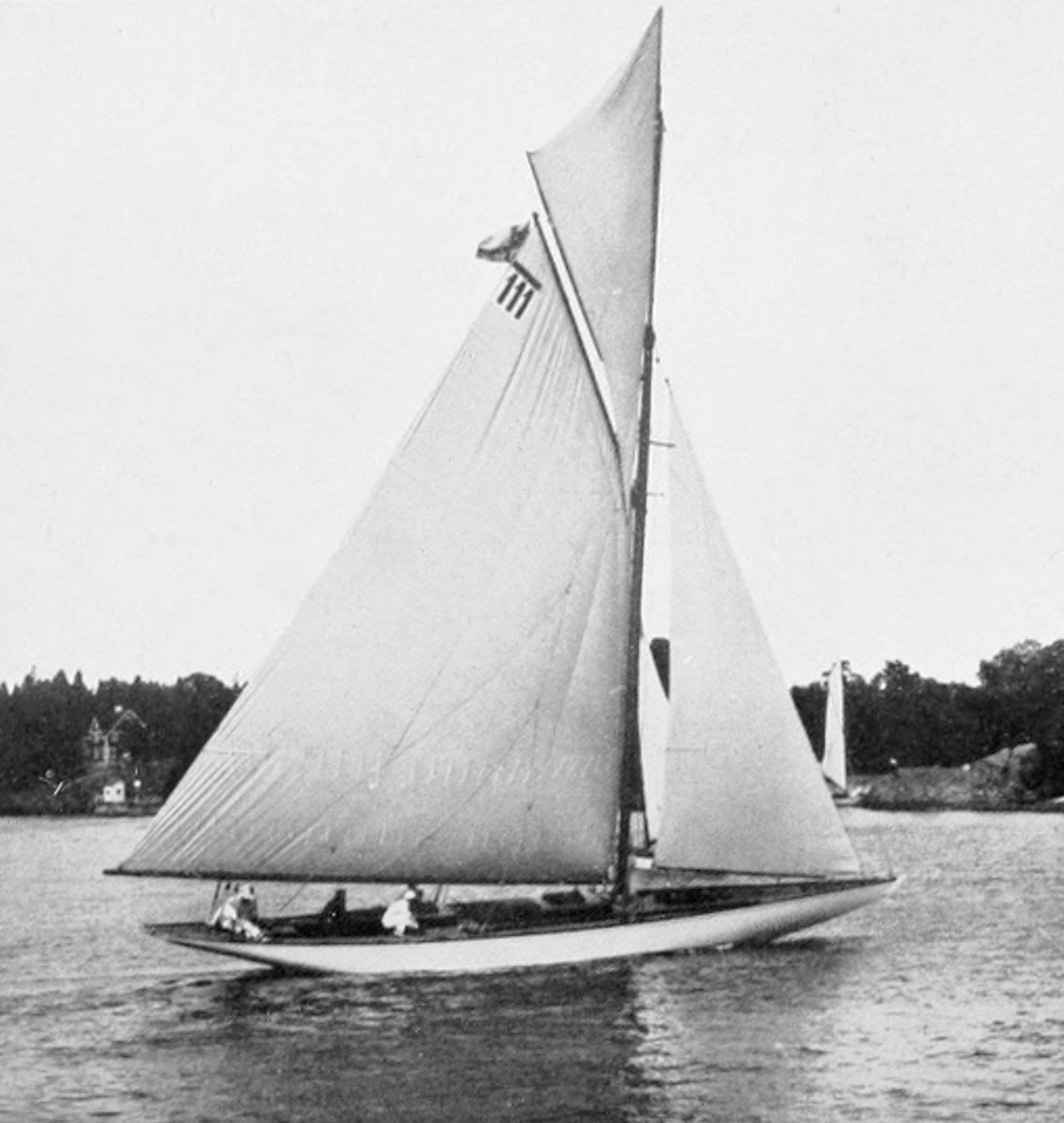 Nina at the 1912 Summer Olympics